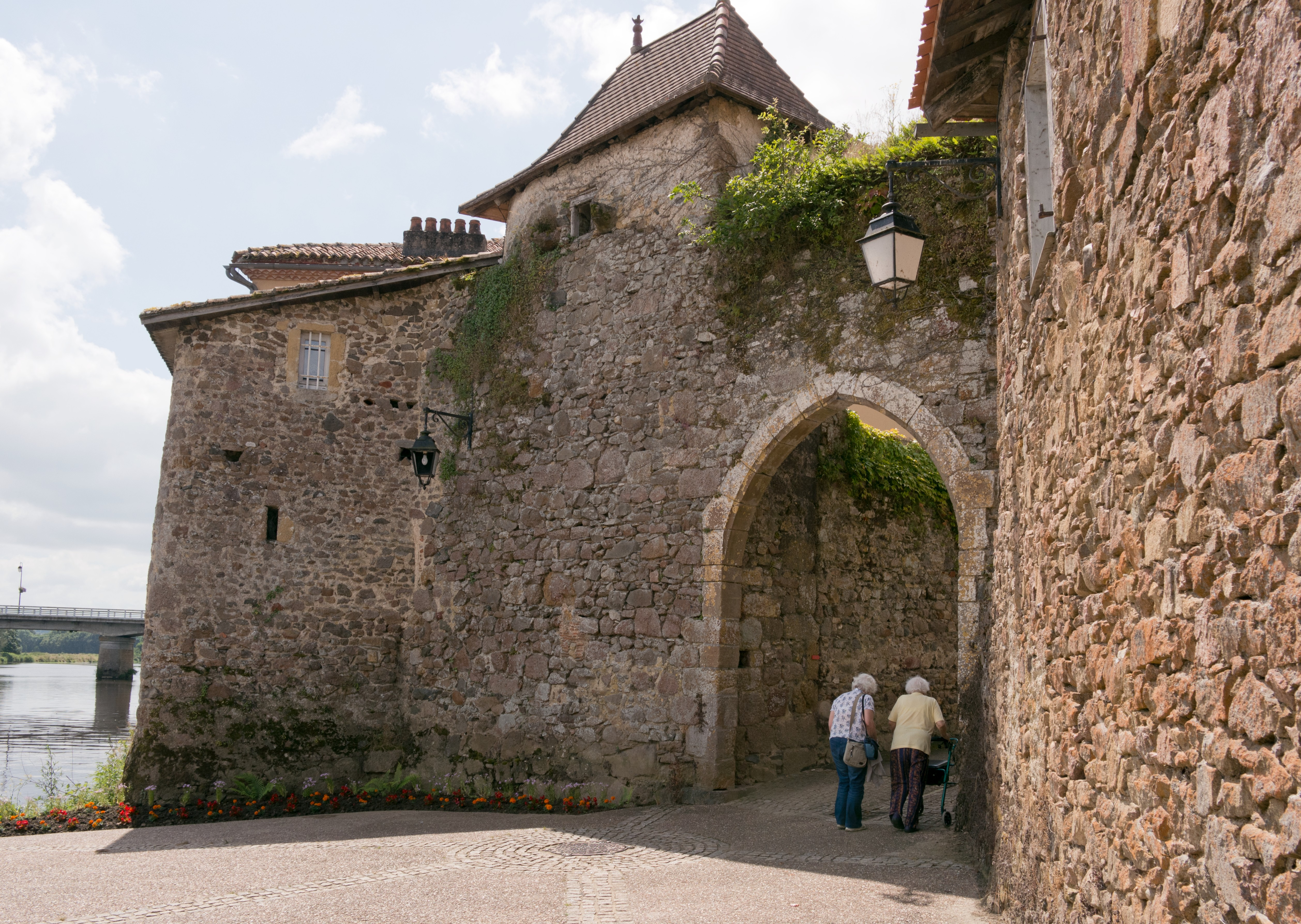 fortification at Availles-Limouzine